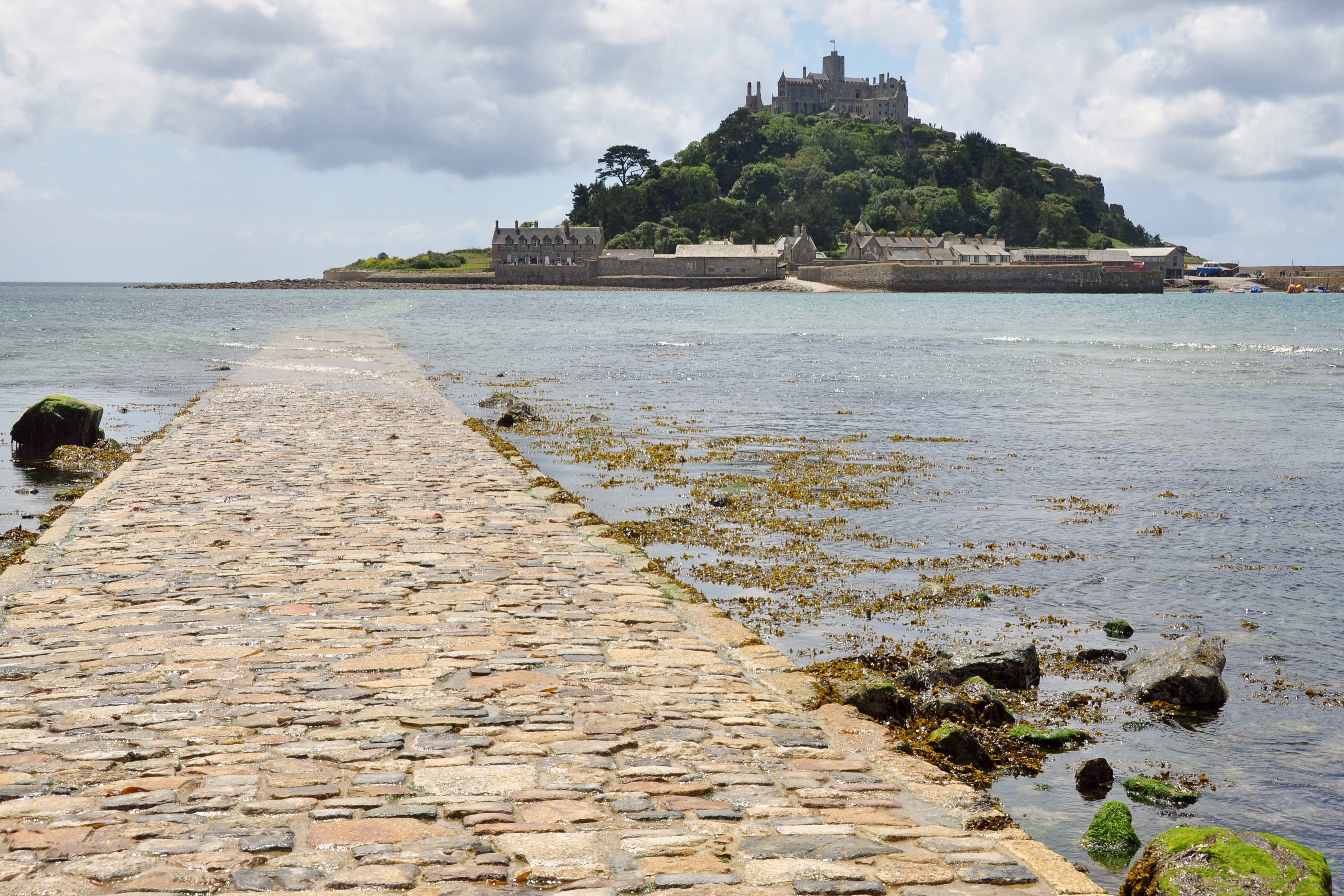 The causeway to St Michael's Mount, in Cornwall. The view is from Marazion towards the mount, and the causeway is about half-exposed